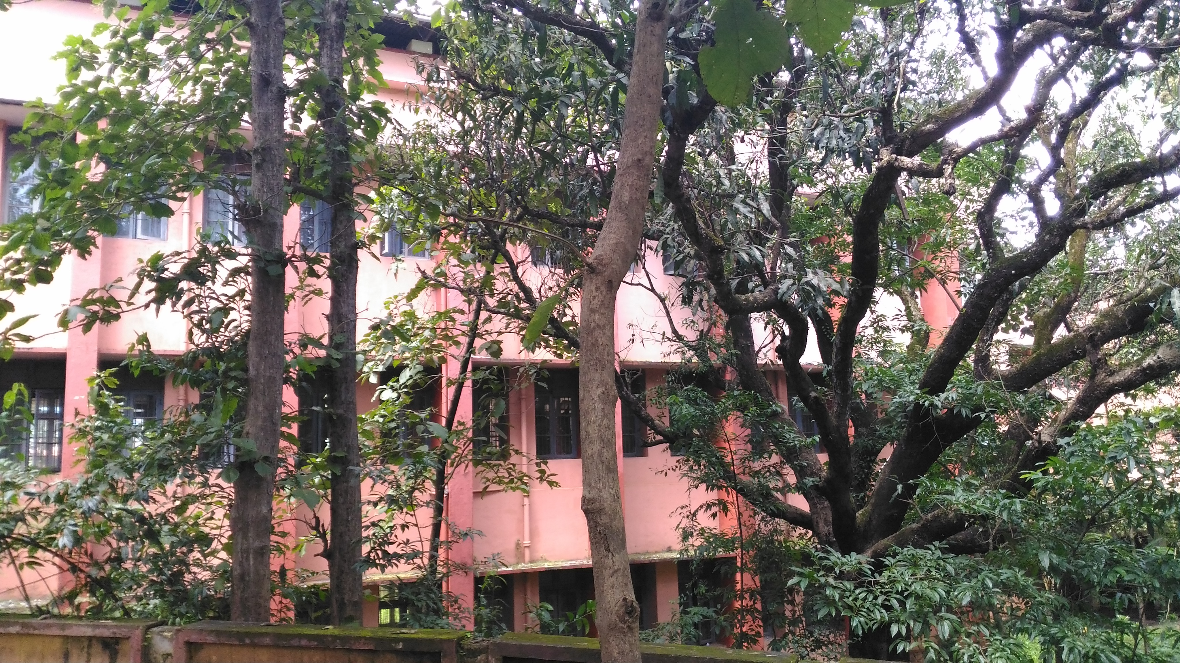 Government_college_kasaragod- View from Biodiversity park